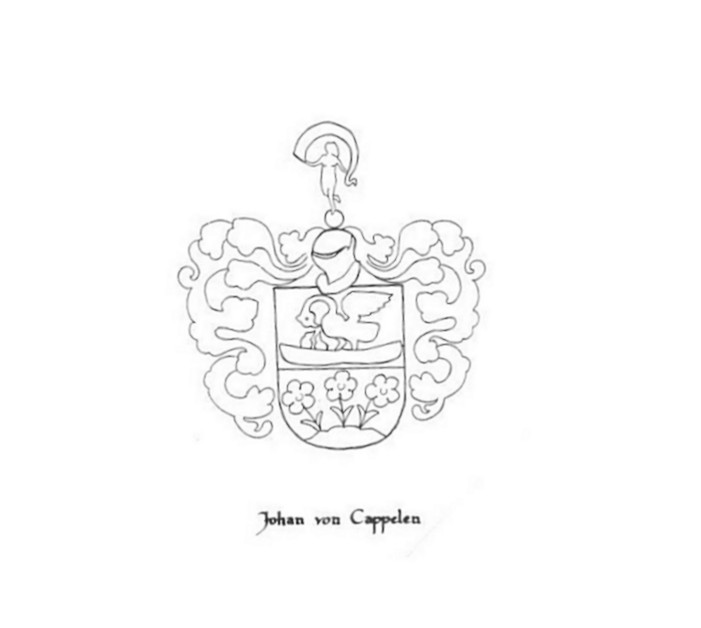 my drawing of Johan von Cappelen's seal of 1682